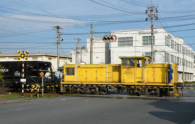 Switcher type OD45 (No.451) of Taiheiyo Cement Corporaion at Yokkaichi port, Mie, Japan.